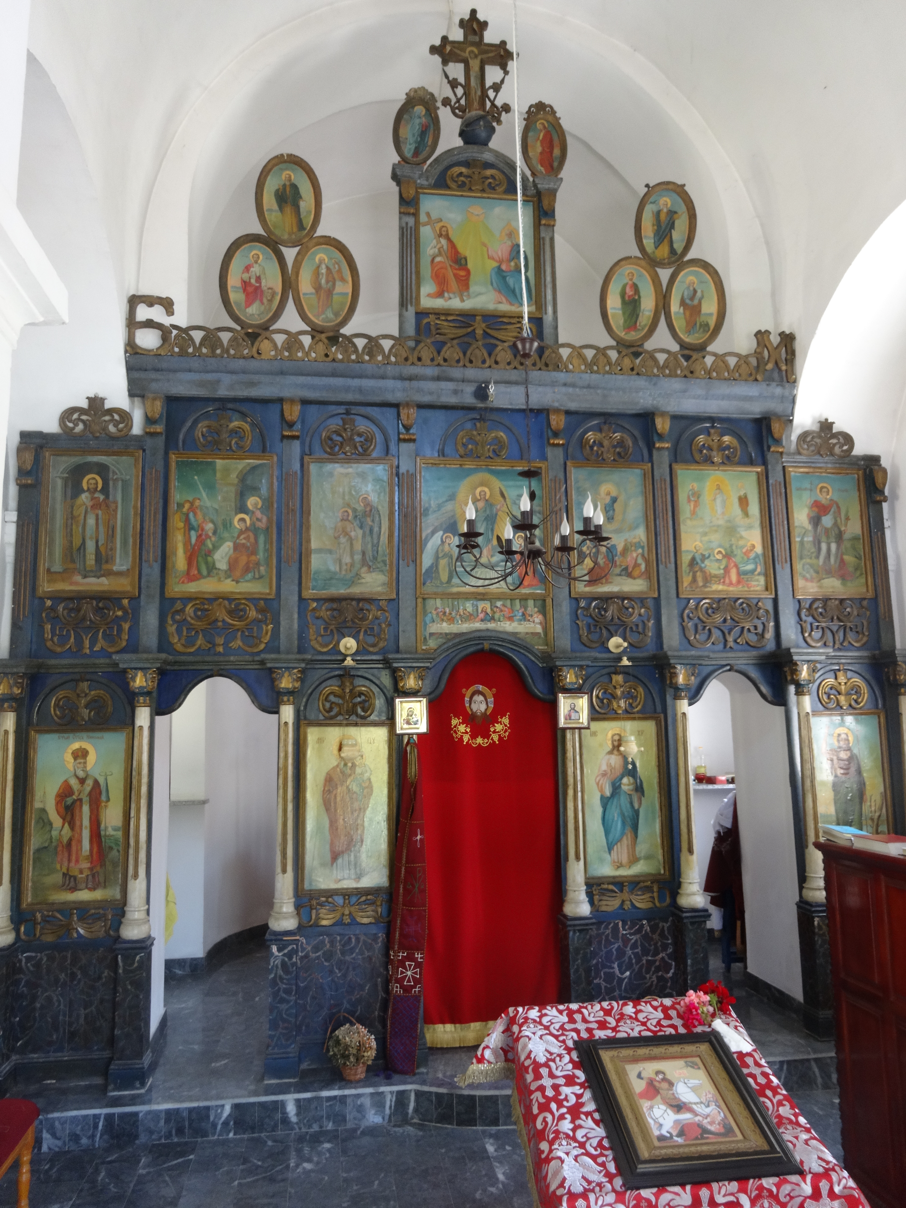 Ćelije, Church of Saint George